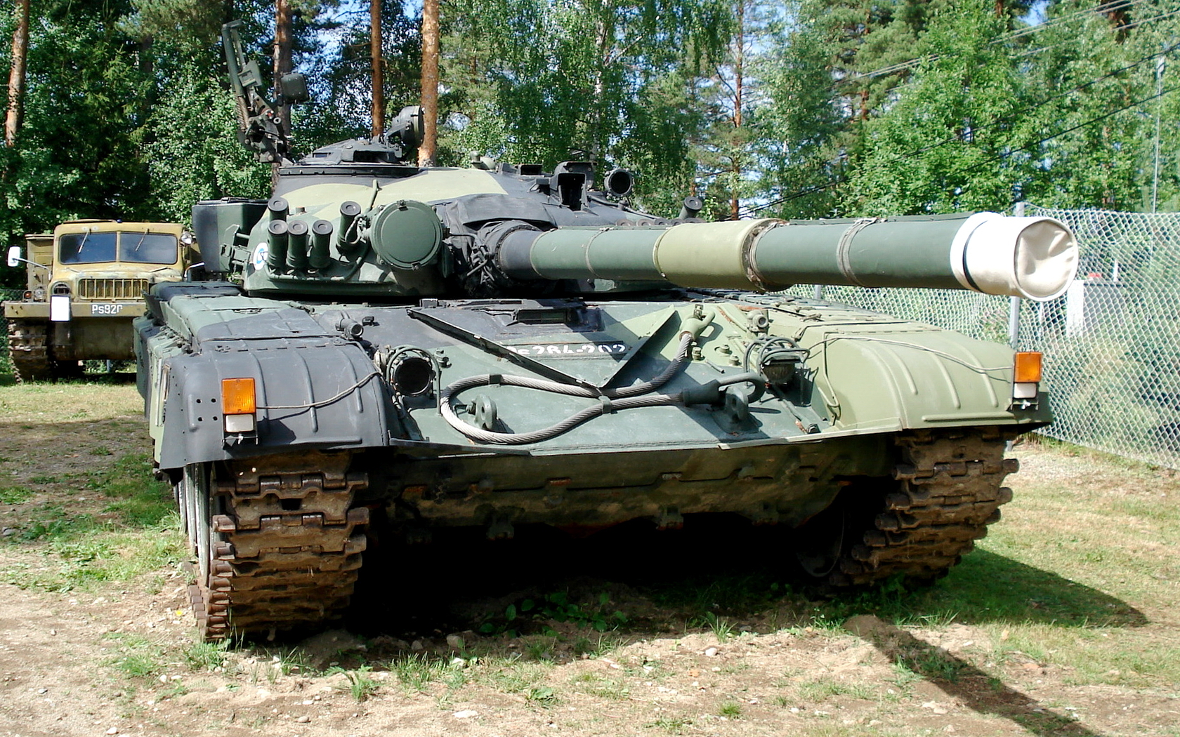 Soviet T-72-M1 tank that was used by the Finnish army, displayed in Finnish Tank Museum (Panssarimuseo) in Parola.